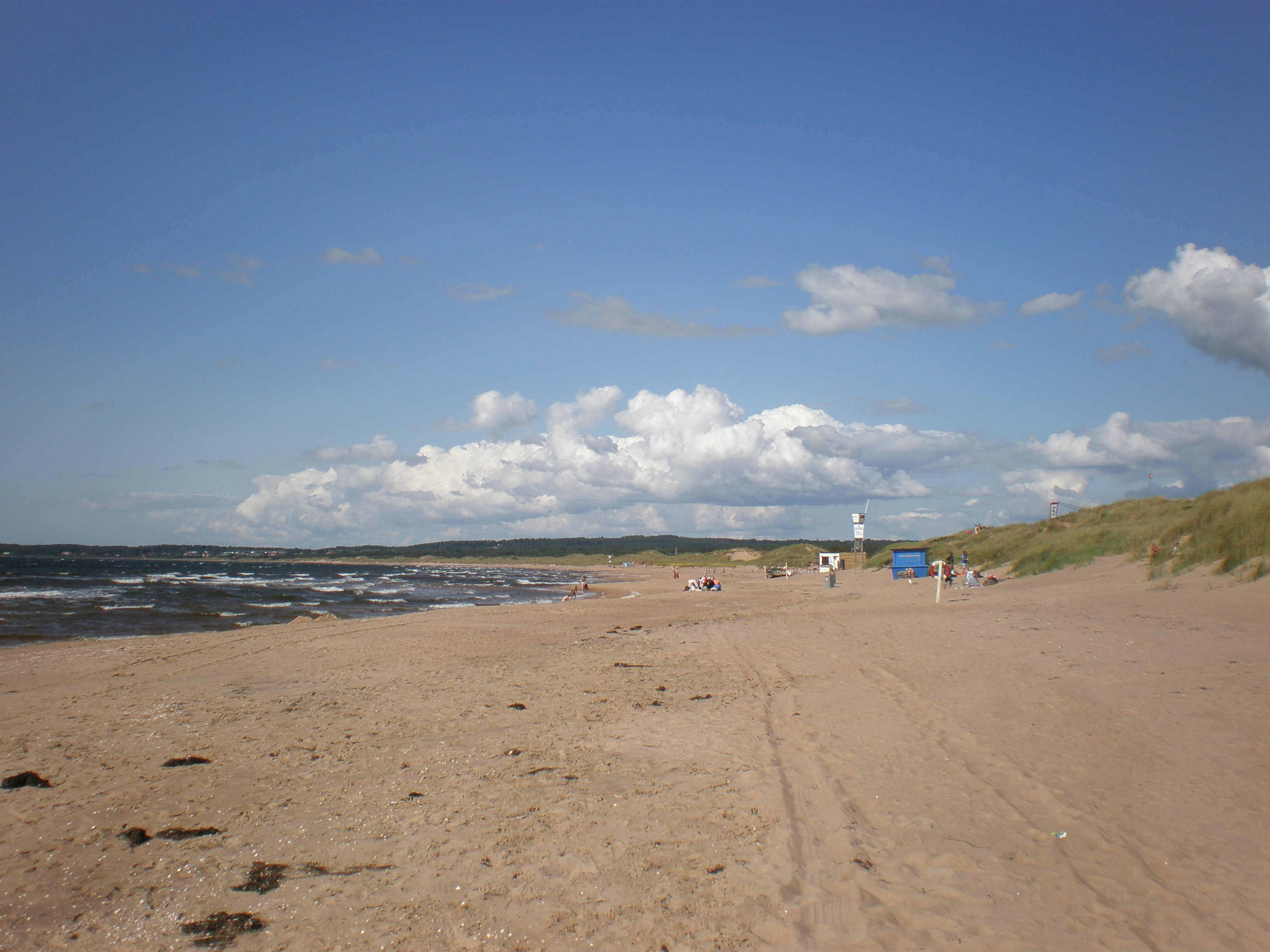 Tylosand beach